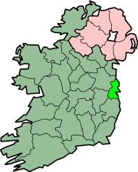 Dublin County map into Ireland 21:52, 3 November 2005 Djegan 200x249 (30665 bytes) (revert to earlier version) 15:50, 3 October 2005 LocGov 200x249 (21906 bytes) (Edited Dublin map) 08:04, 5 February 2004 Morwen 200x249 (30665 bytes) (map)